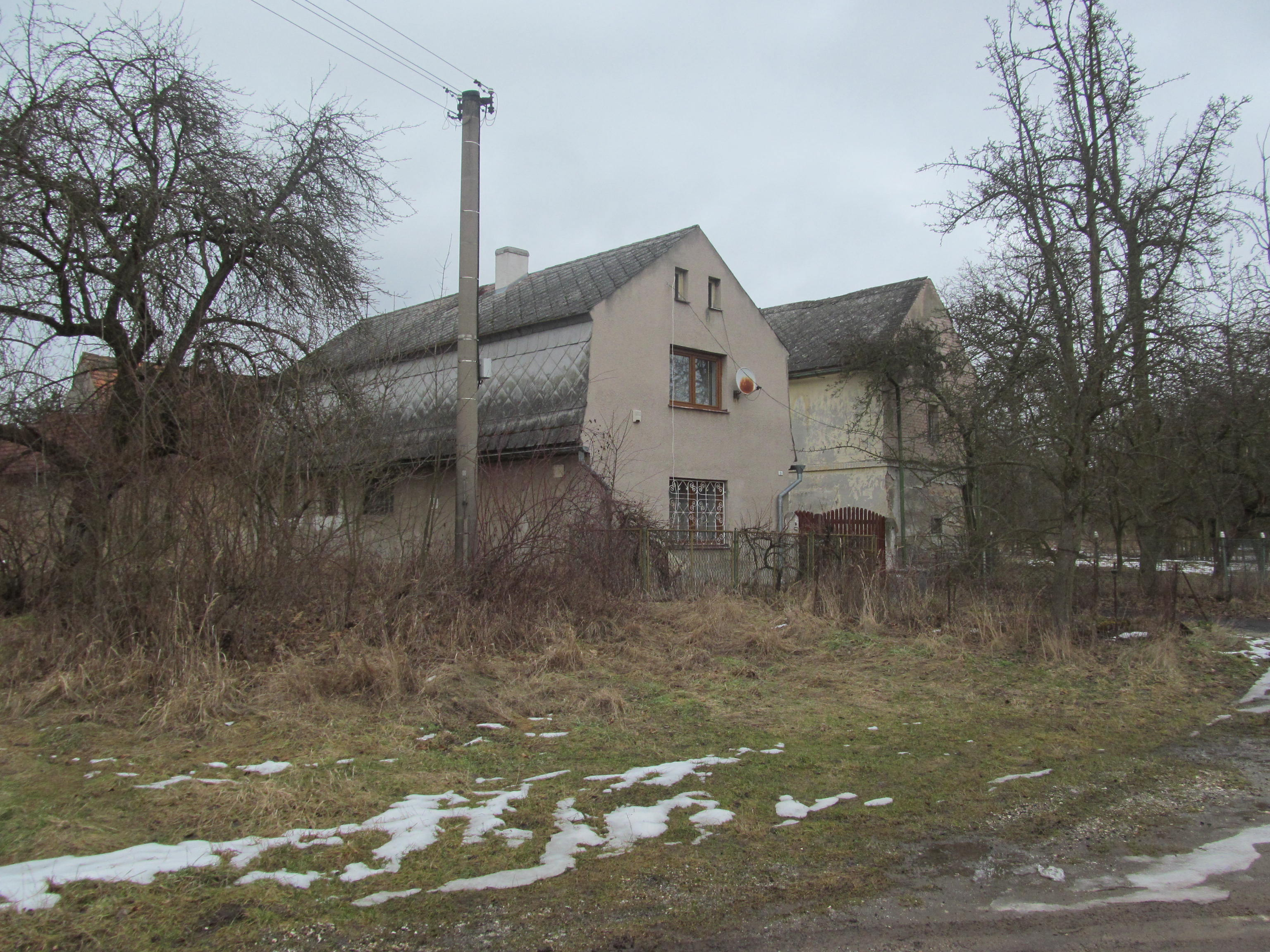 House No 43 in Nová Hospoda